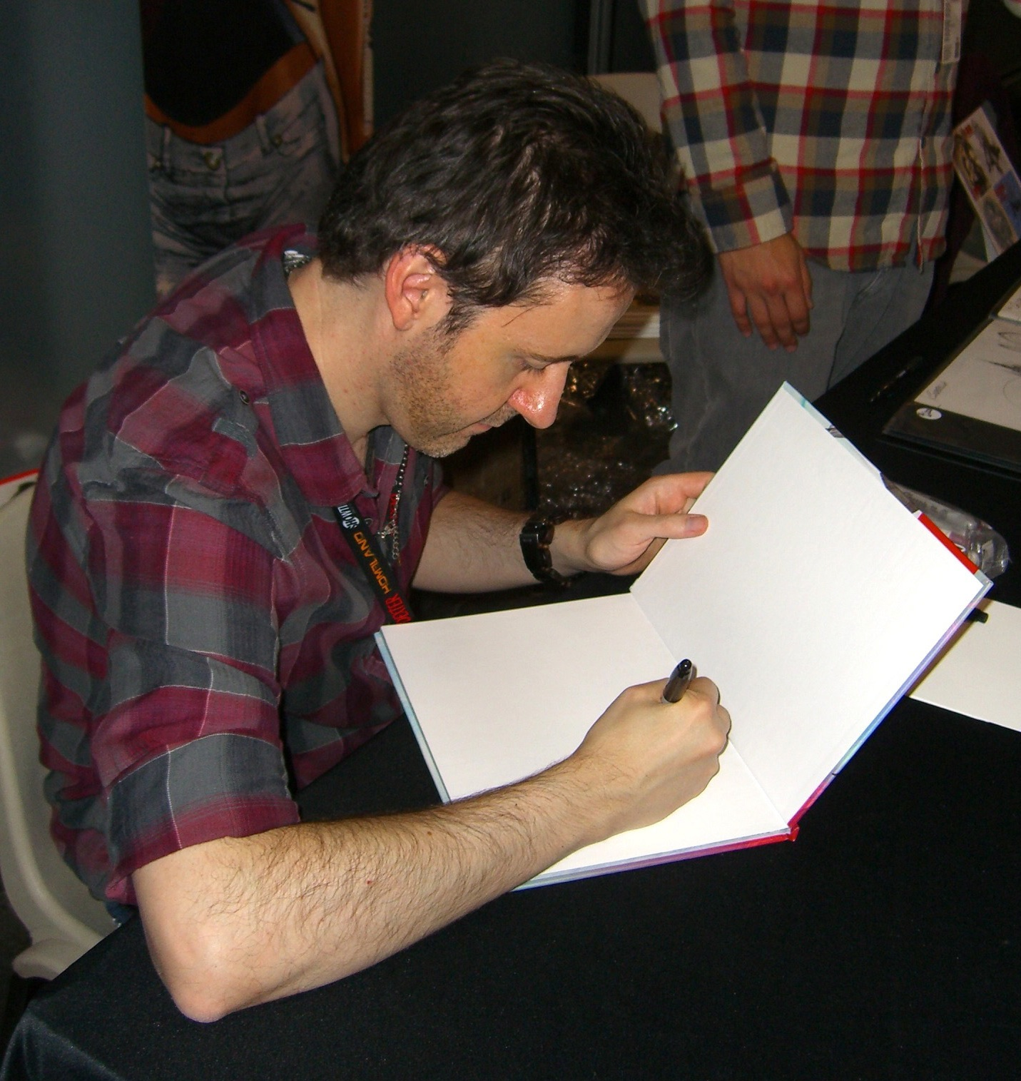 Comics creator J. Scott Campbell at the New York Comic Con, October 15, 2011. This photo was created by Luigi Novi. It is not in the public domain, and use of this file outside of the licensing terms is a copyright violation.